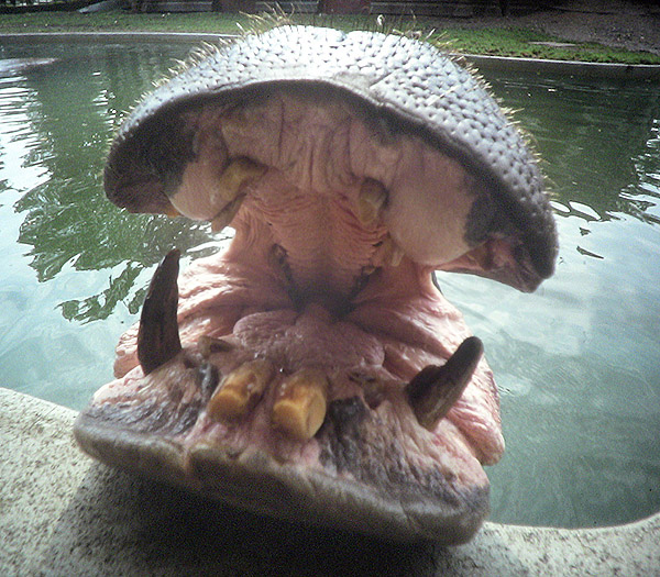 The front end of a Hippopotamus